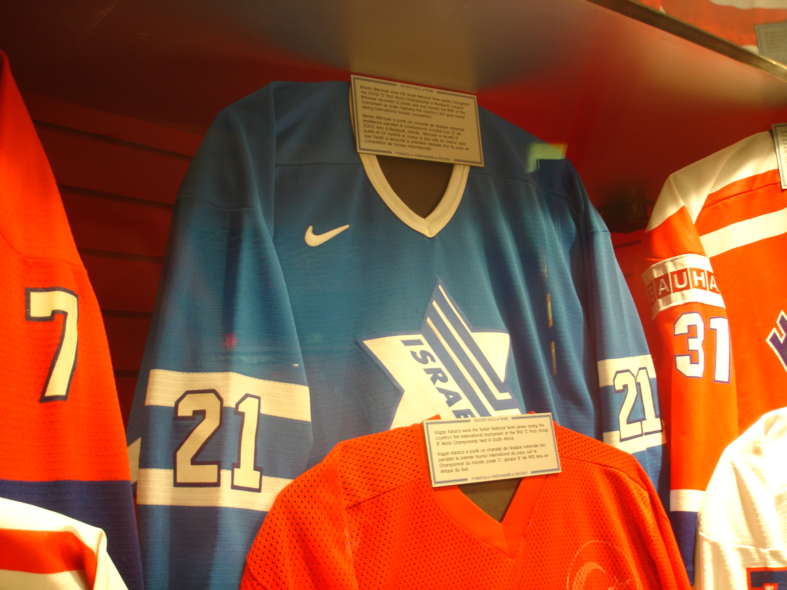 The jersey worn by Max Birbraer while playing for the Israeli National Team in the D Pool World Championship held in Reykjavik, Iceland, in 2000, on display in the Hockey Hall of Fame in Toronto.